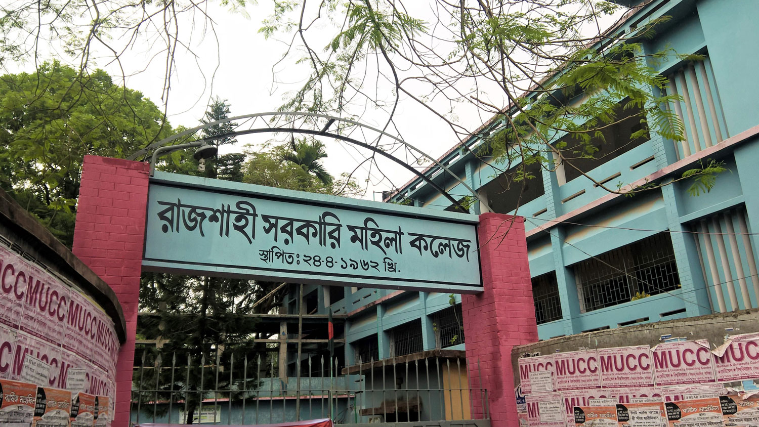 Govt. Women's College, Rajshahi is one of the best colleges in Greater Rajshahi. This is the only government college for womens education.